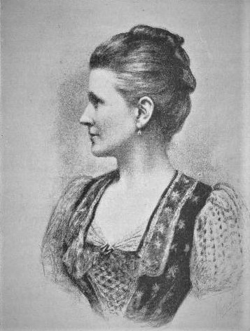 Mrs Mabel Virginia Anna Bent (1847-1929), a photograph from page 61 of 'The Ruined Cities of Mashonaland; Being a Record of Excavation and Exploration in 1891' by J. Theodore Bent, 1892. Longmans, Green and Co.